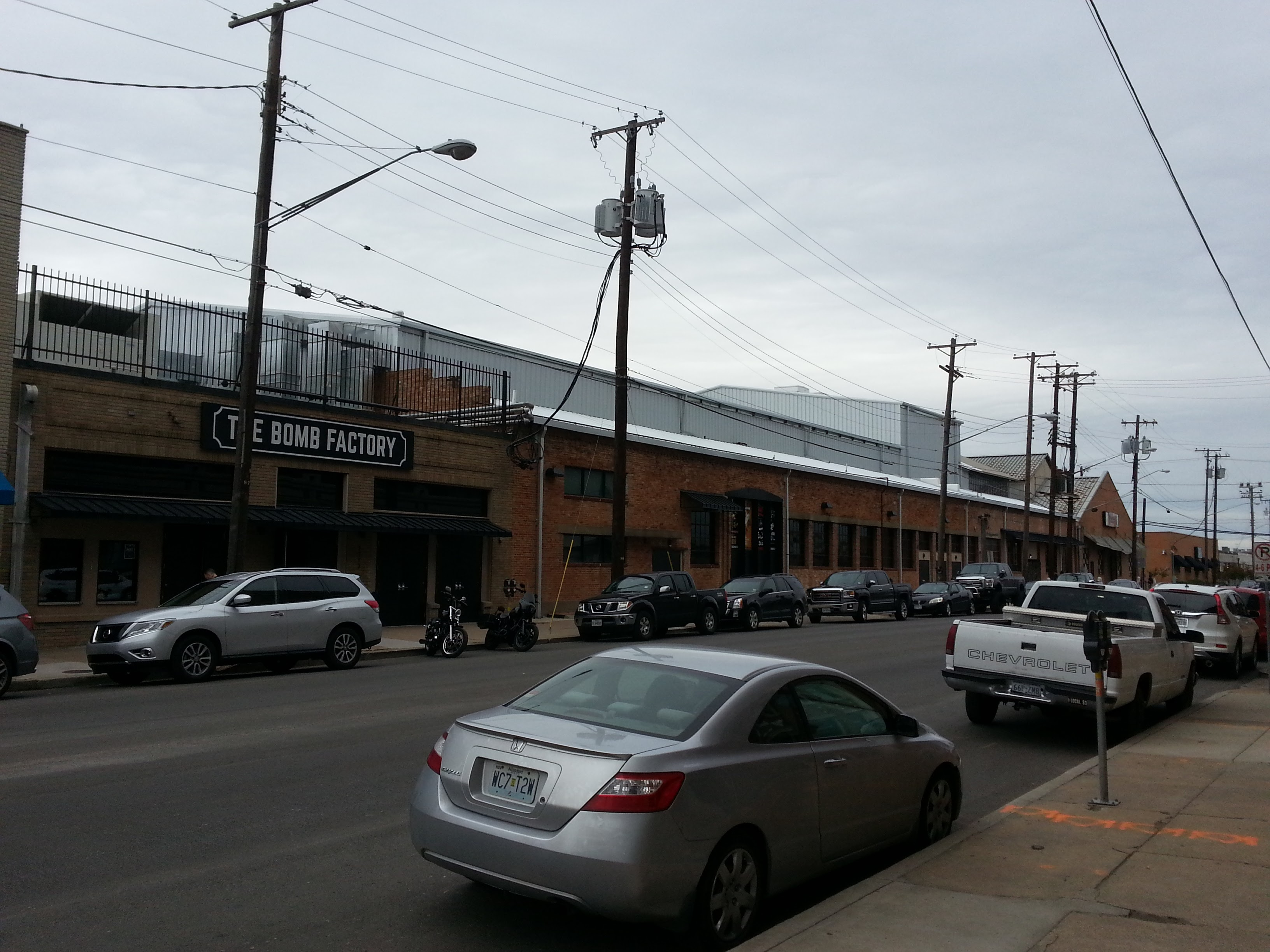 south side of The Bomb Factory in Dallas